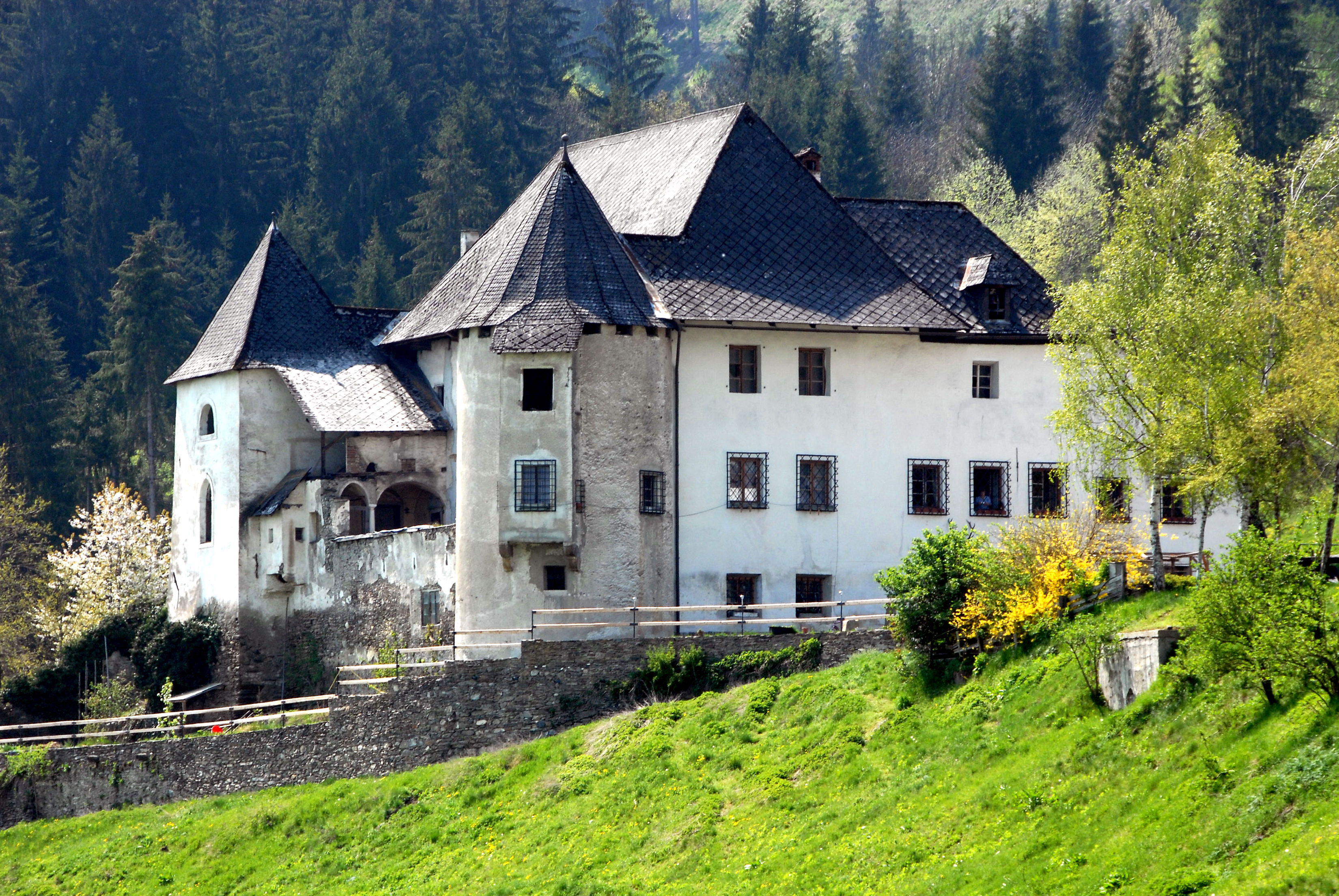 Mansion Dornhof, municipality Frauenstein, district Sankt Veit an der Glan, Carinthia, Austria, EU